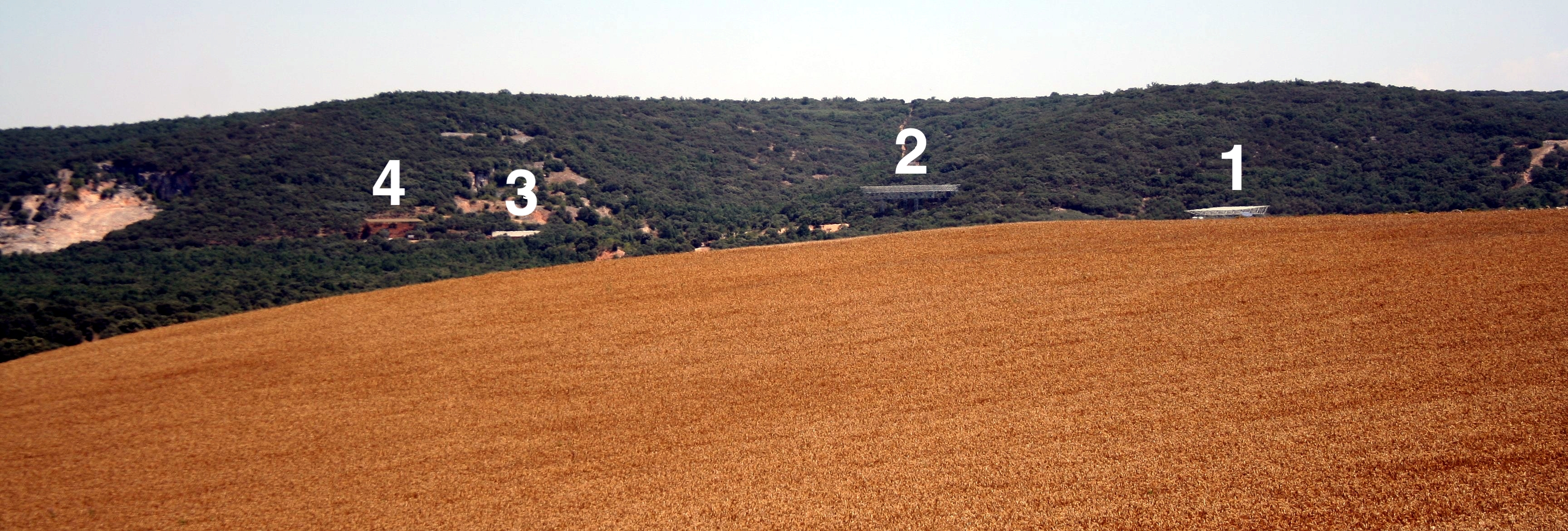 A new version of the original Trinchera Atapuerca.jpg: Location of the excavation sites in the railway ditch (after the visible protective roofs): (1) Entrance to the ditch; (2) Sima del Elefante; (3) Galería; (4) Gran Dolina